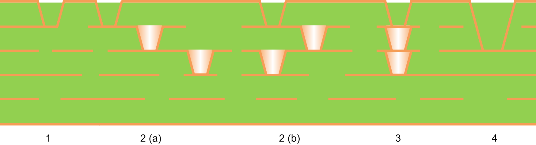 Different types of laser via